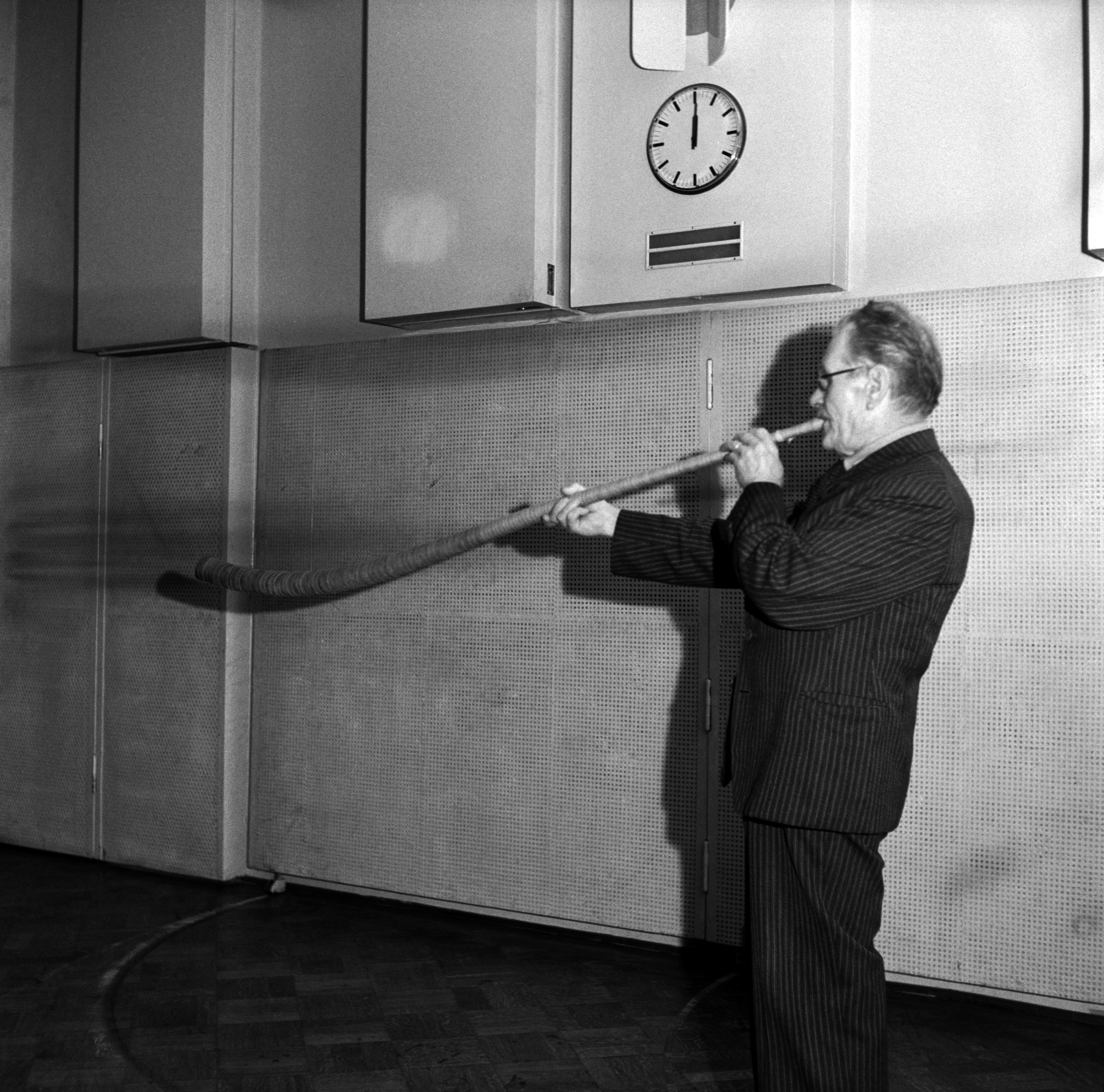 Photograph of the Finnish folk musician Teodor “Teppo” Repo (1886–1962) playing birch-bark horn.